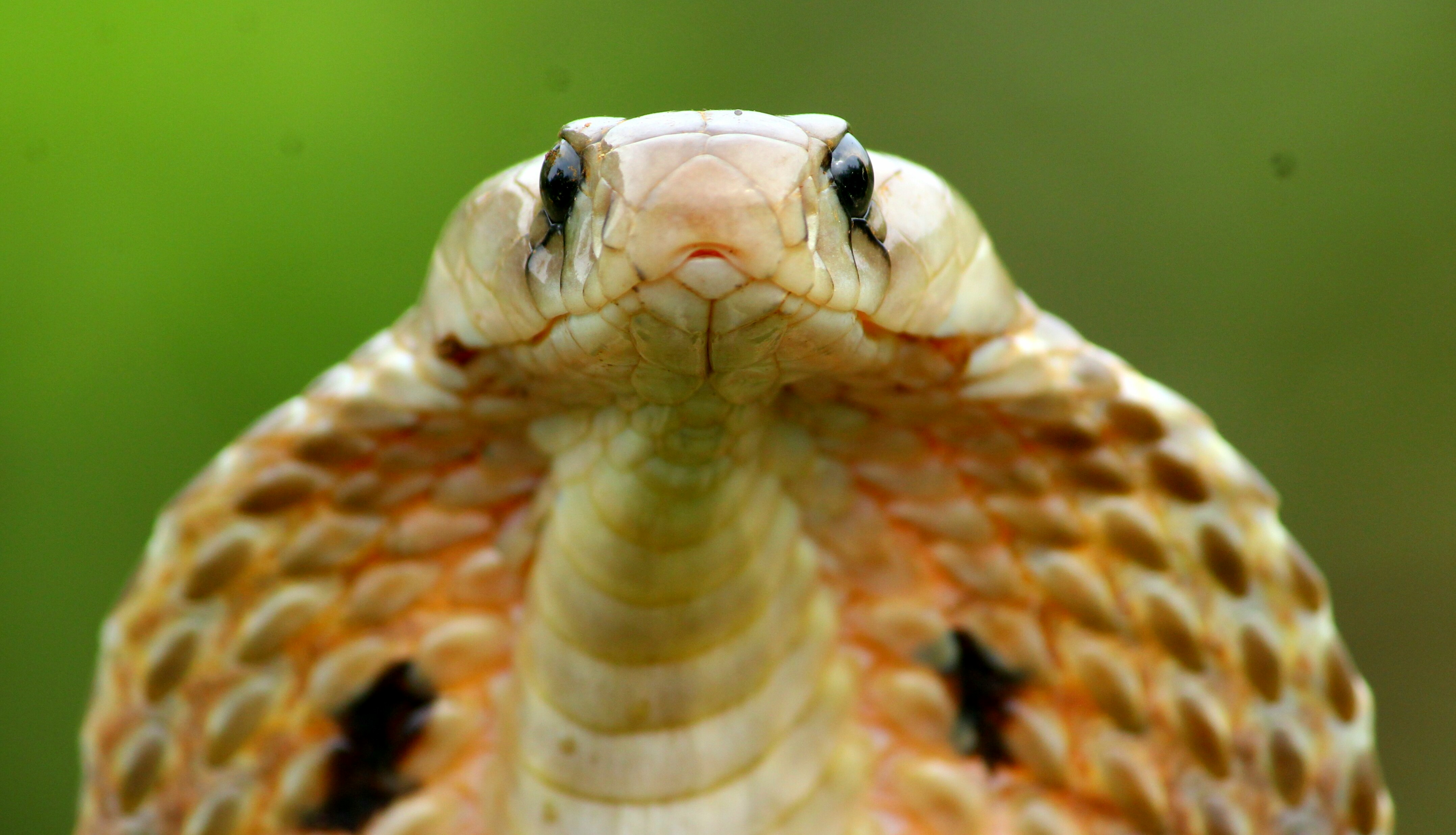 Indian Spectacled Cobra staring at the camera